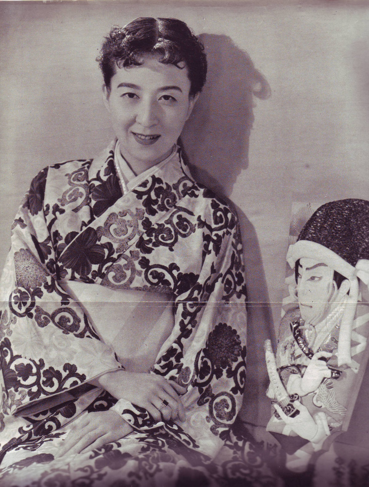 Yachiyo Kasugano (Takarazuka Reveu). taken in before 1955.